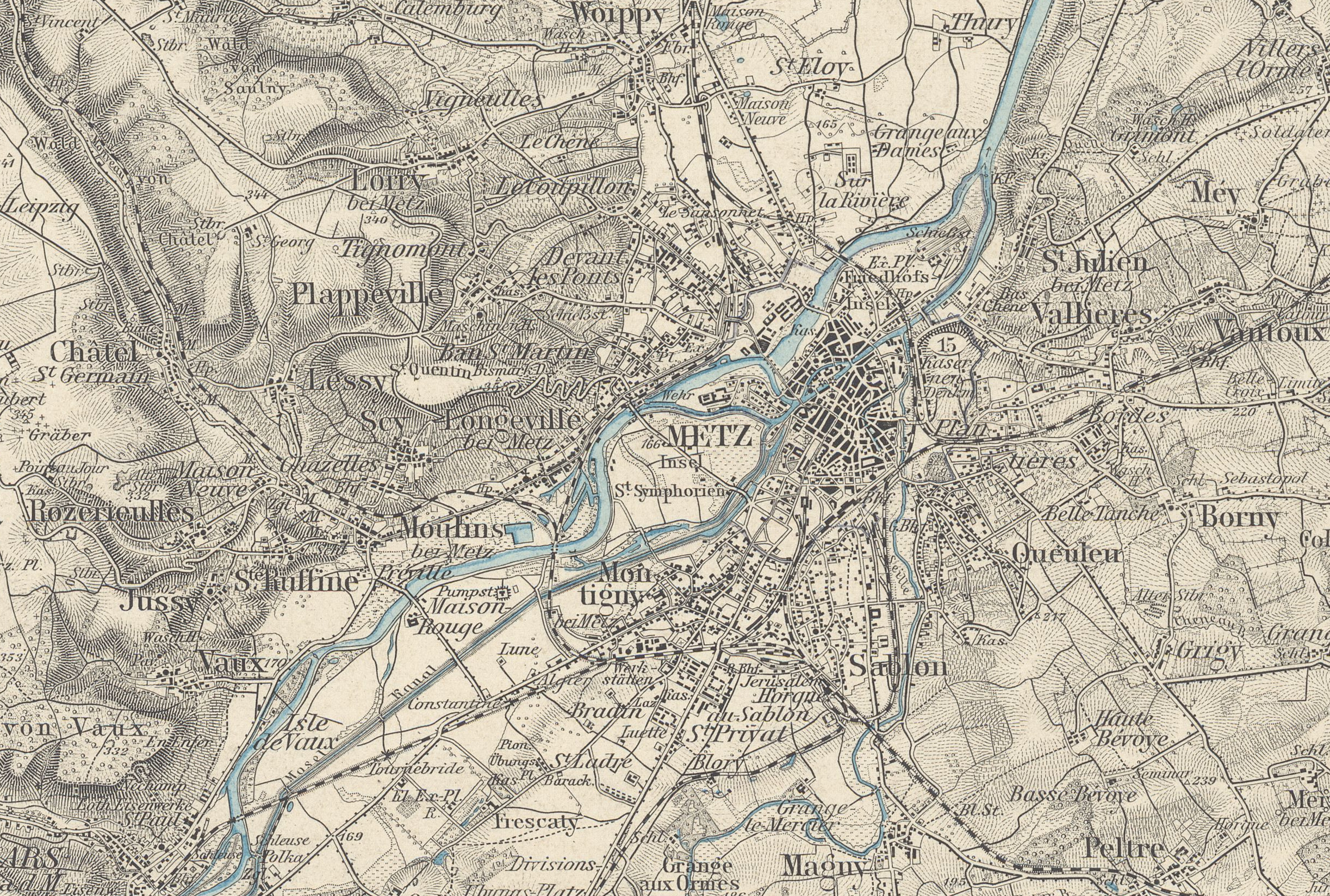 Railway Lines around the city of Metz, Lorraine, after Construction of new main Station in 1908 Part of "Karte des Deutschen Reiches", 1:000.000, Sheet 568 "Metz", last addenda made in 1908